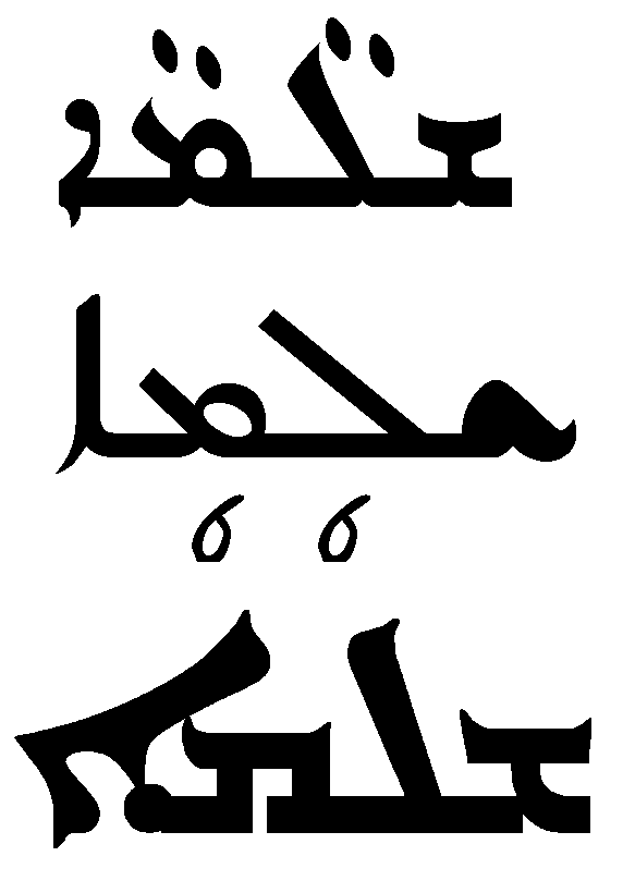 shlama peace ܐܪܡܝܐ: ܫܠܡܐ